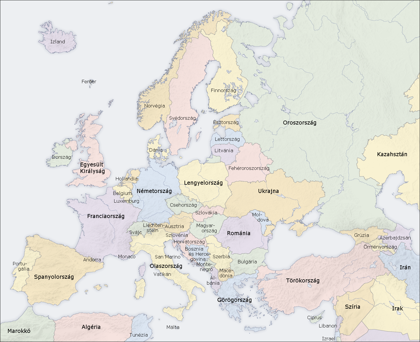 Map of countries in Europe